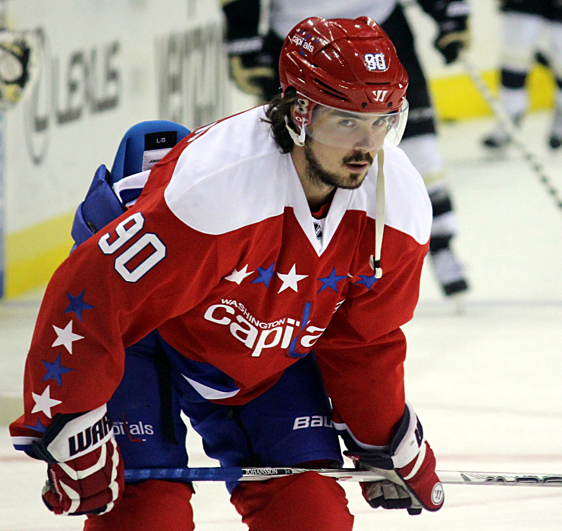 Washington Capitals forward Marcus Johansson during a game against the Pittsburgh Penguins, Thursday, April 7, 2016 at Verizon Center in Washington, D.C.